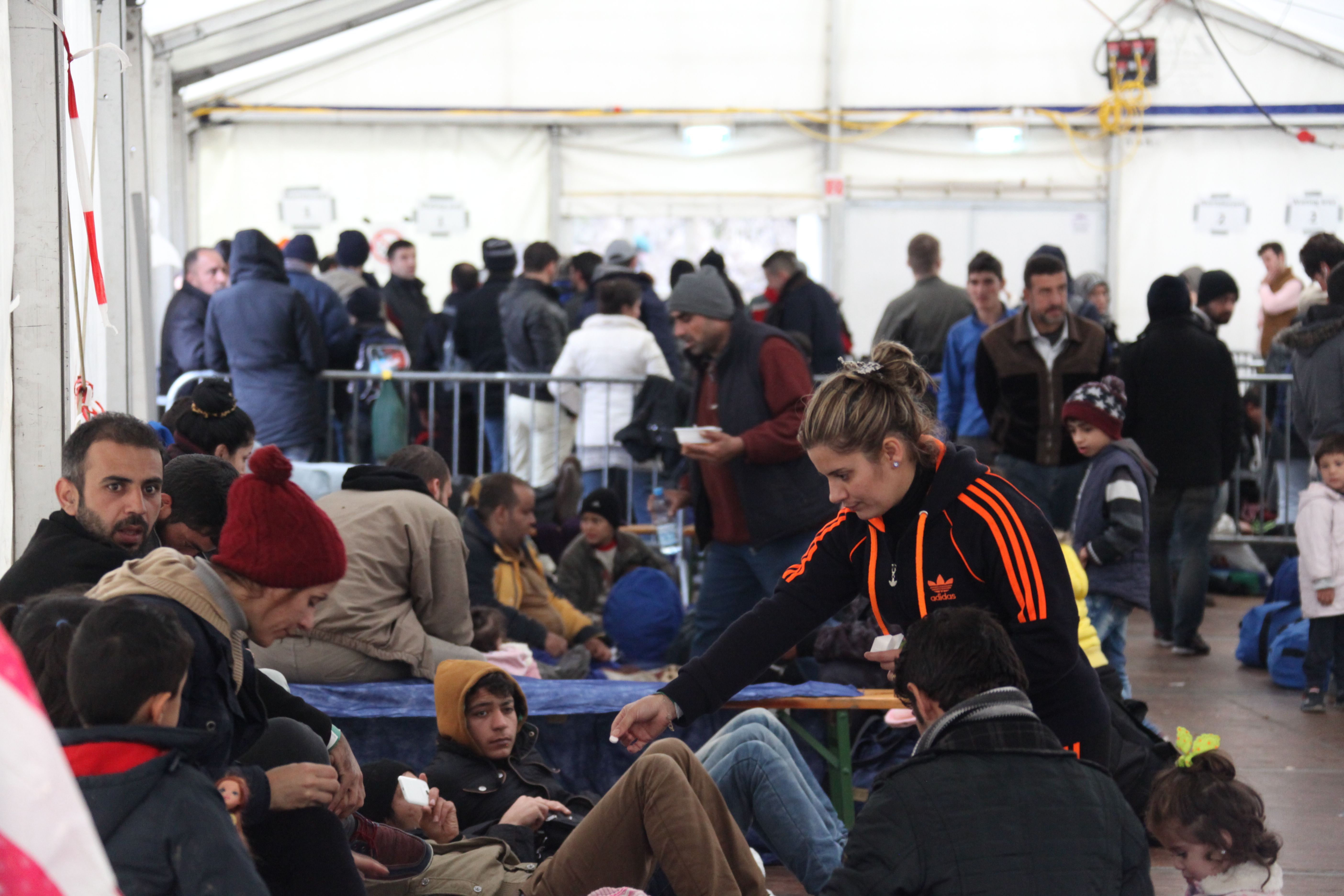 Grenzübergang Oberösterreich / Deutschland Immigrantenabfertigung 17.11.2015 - WEGSCHEID-HANGING Personality rights warning Although this work is freely licensed or in the public domain, the person(s) shown may have rights that legally restrict certain re-uses unless those depicted consent to such uses. In these cases, a model release or other evidence of consent could protect you from infringement claims.